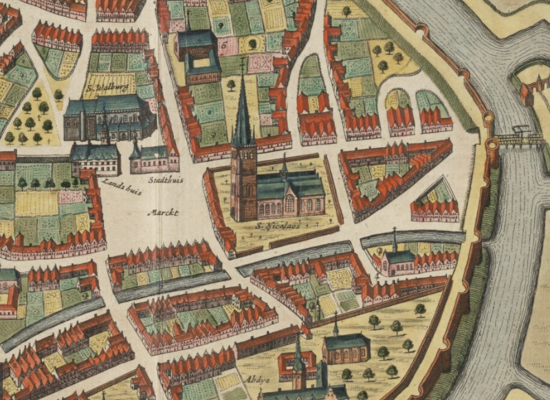 Sint-Niklaaskerk 1640 Sanderus Flandria Illustrata